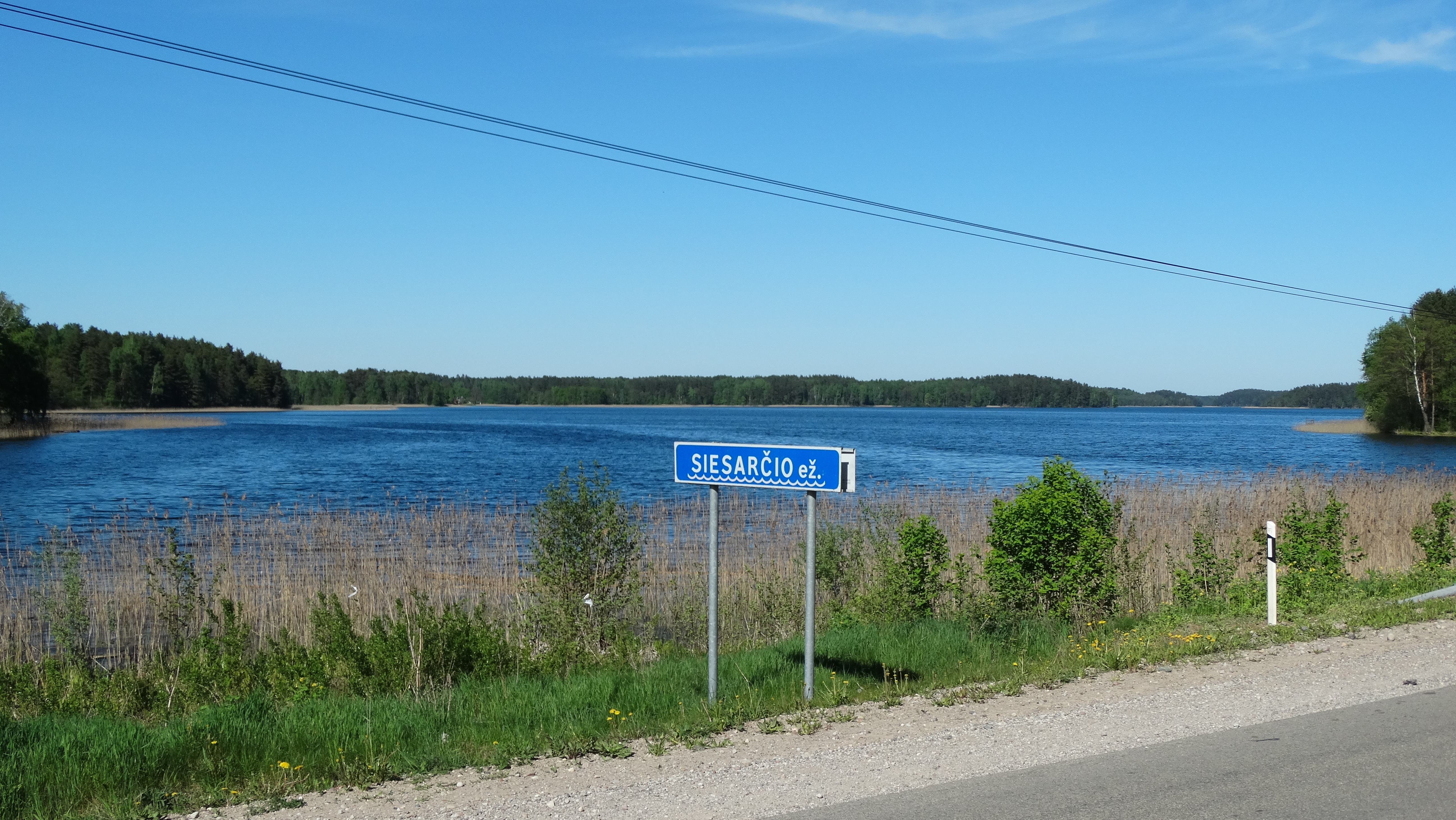 Siesartis Lake, Molėtai District, Lithuania